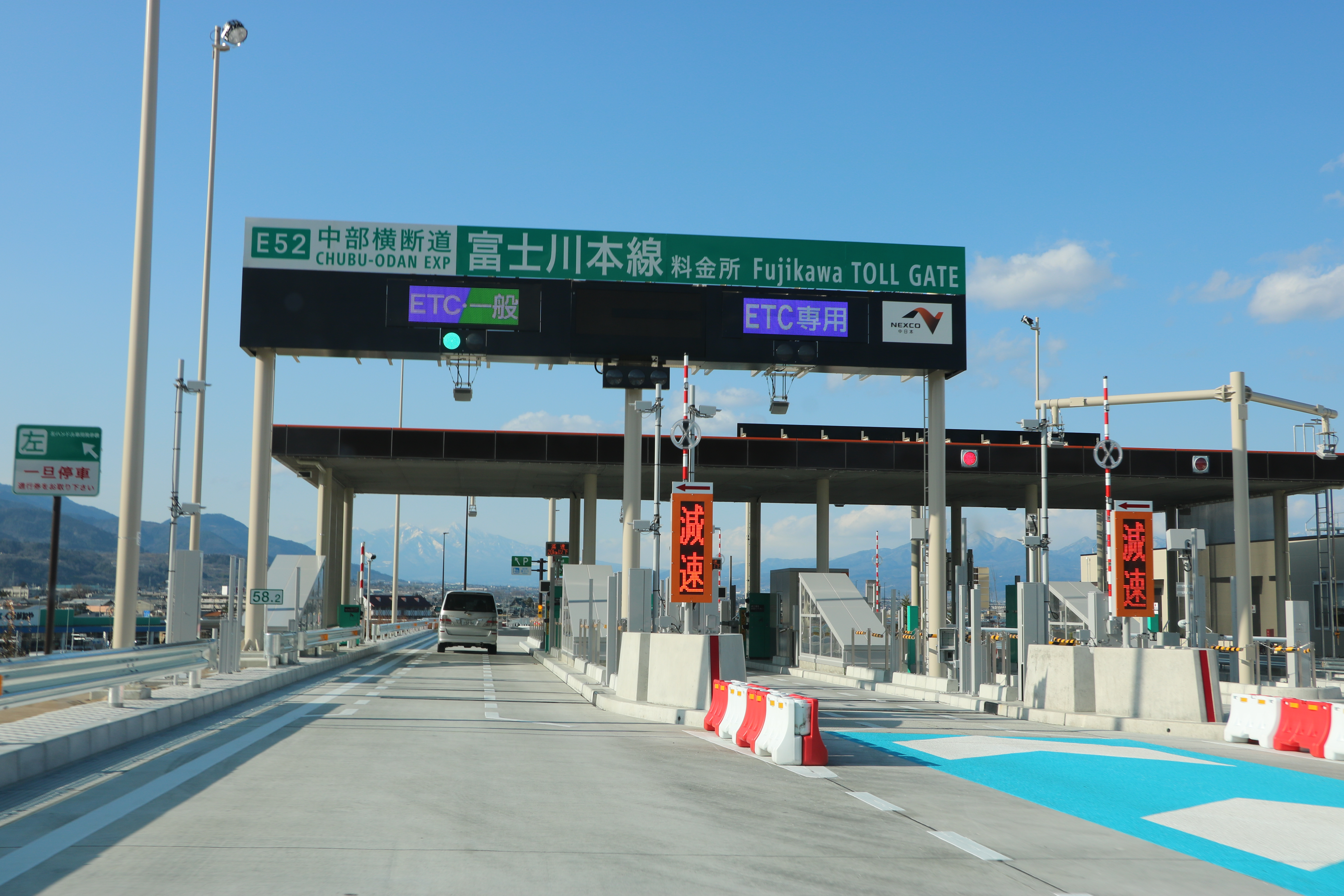 Chubu Odan Expressway Fujikawa-Honsen Main line Toll Gate.